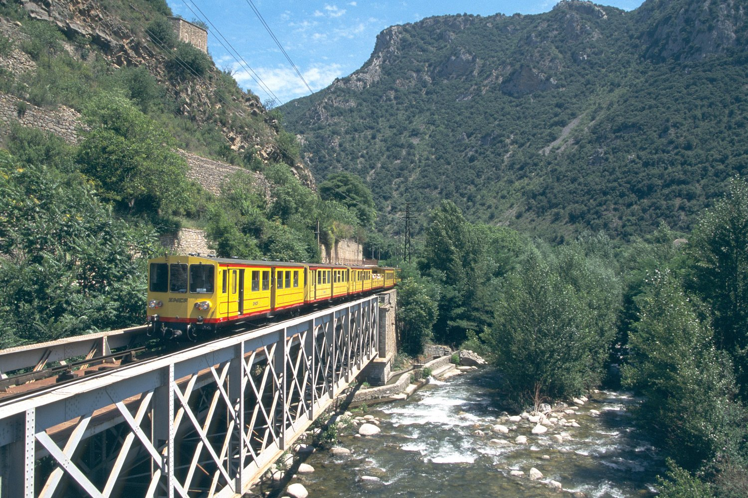 Train of the Ligne de Cerdagne (le petit train jaune) crossing the river Têt near Villefranche de Conflent.